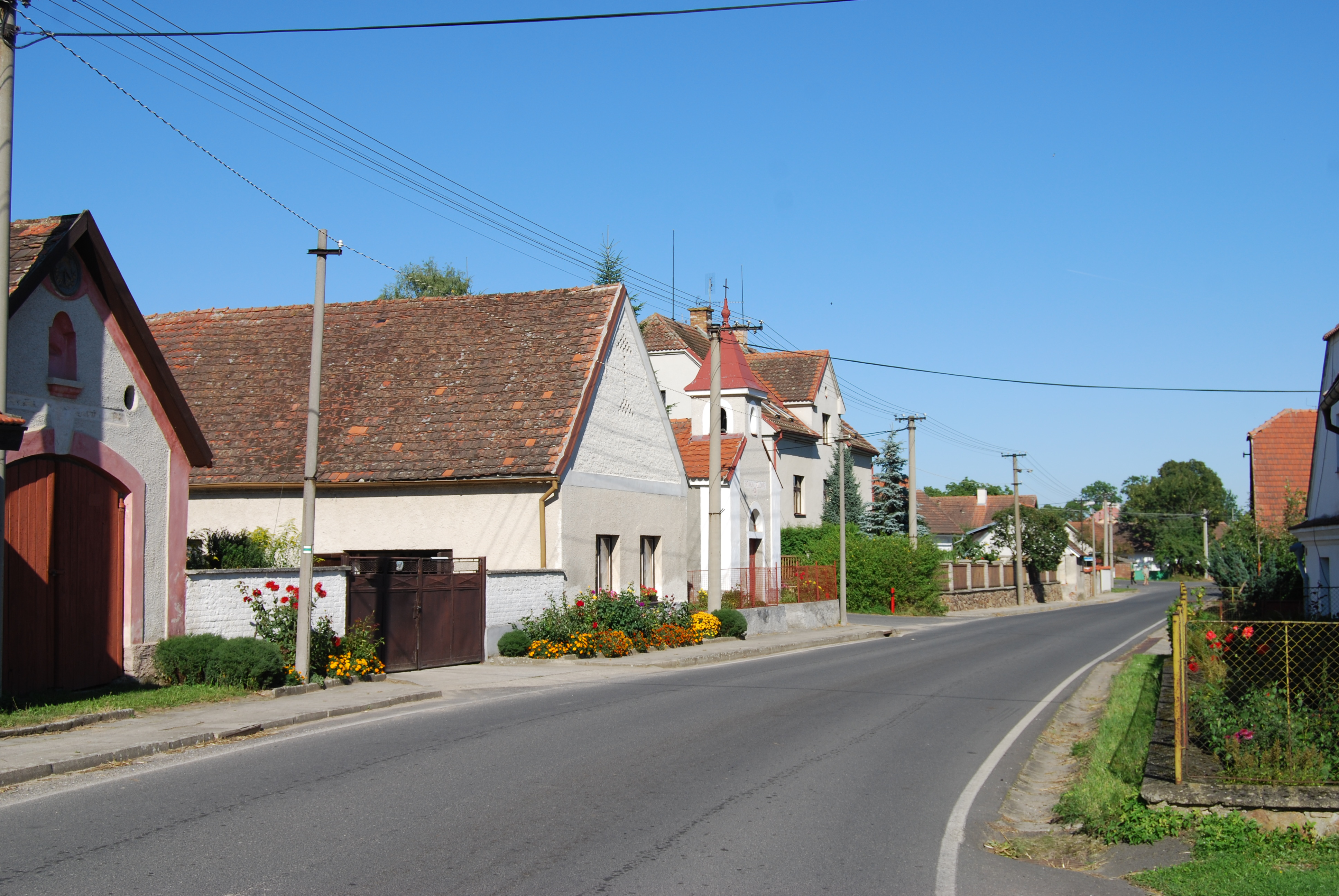 Branice village in Pisek District, Czech Republic. Street